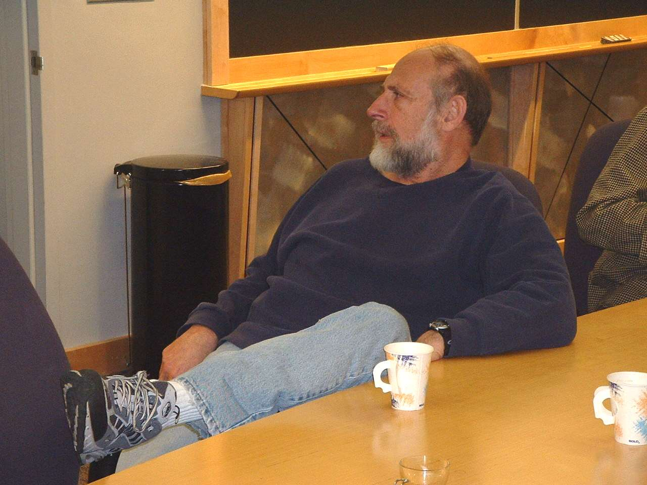 Leonard Susskind at Stanford University